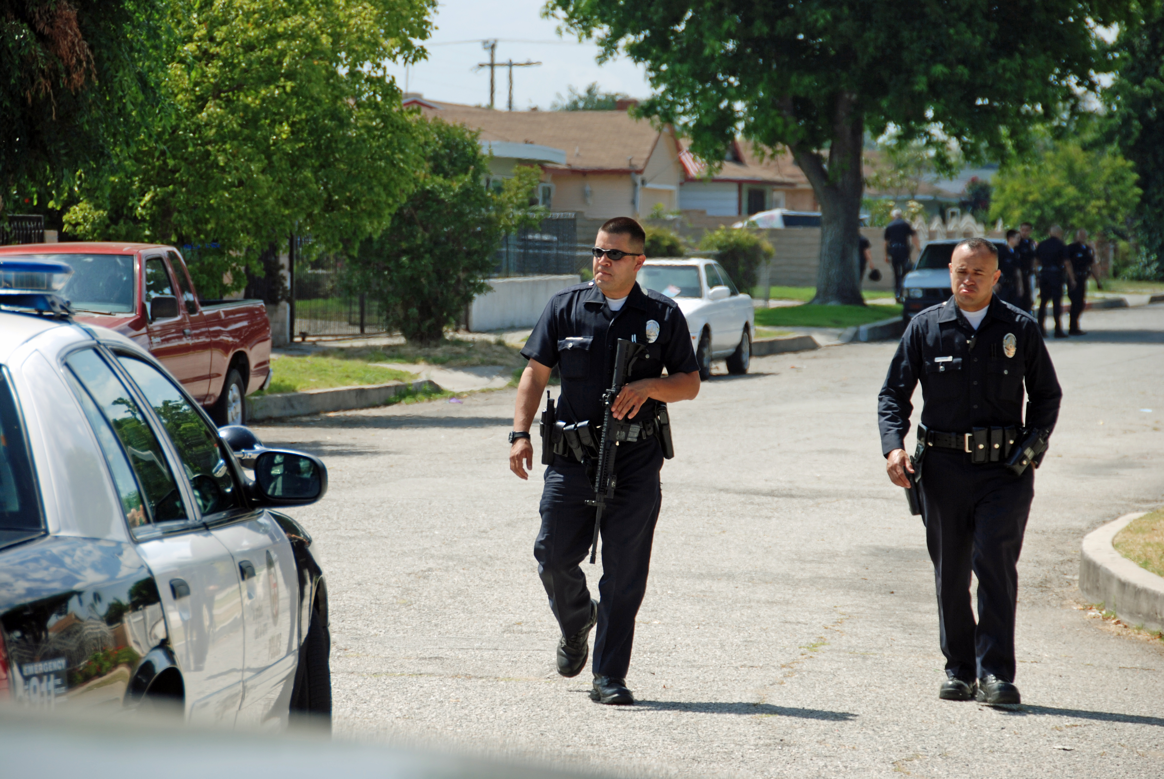 Two LAPD officer walking to a patrol car in Mission Hills